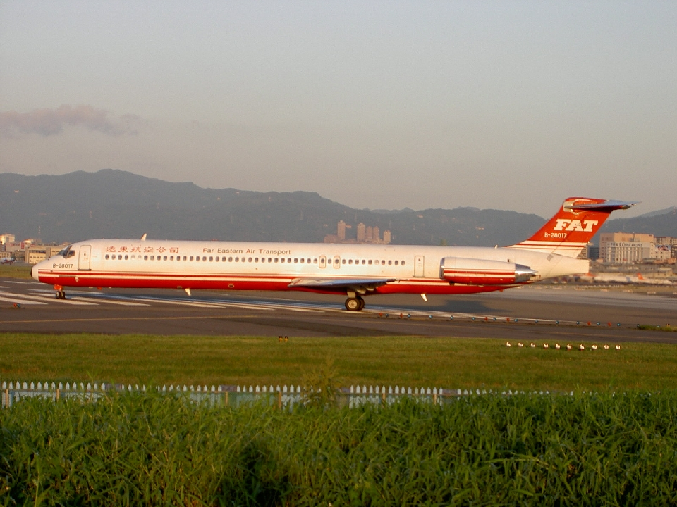 FEA MD-82 READY TO TAKEOFF IN RCSS RWY 10